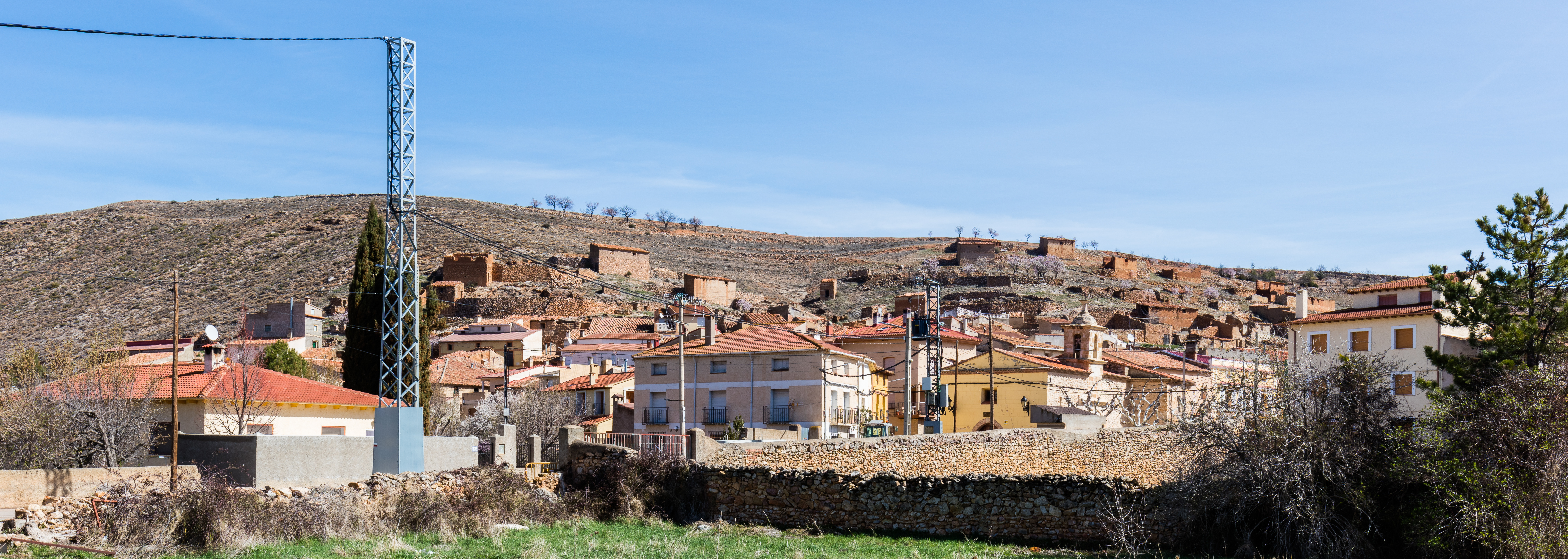 Cimballa, Zaragoza, Spain